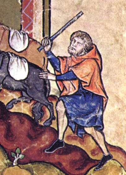 Man in a hooded cape or cappa